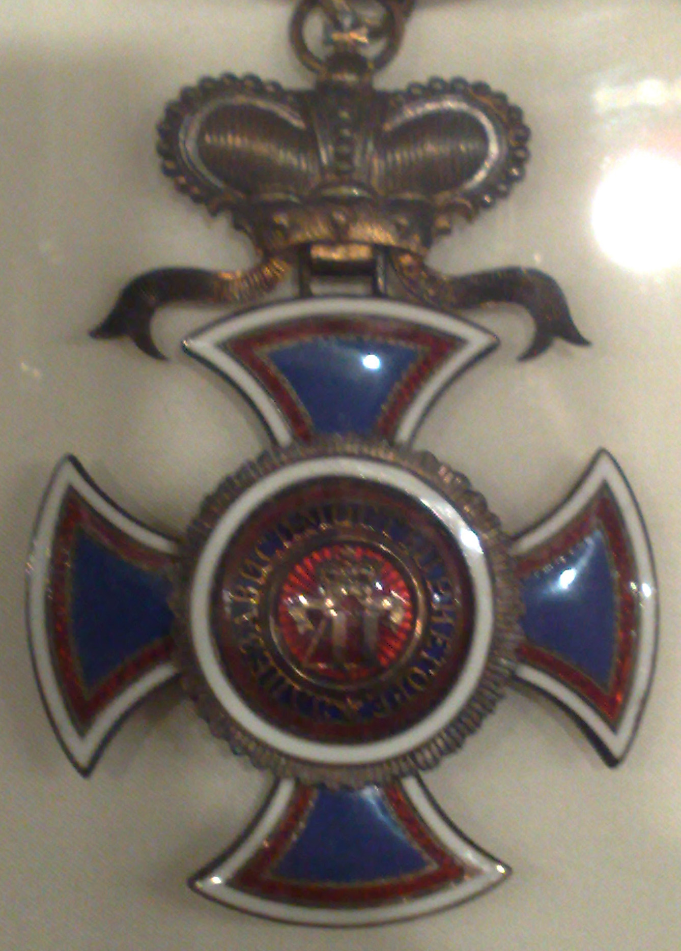 Order of Prince Danilo